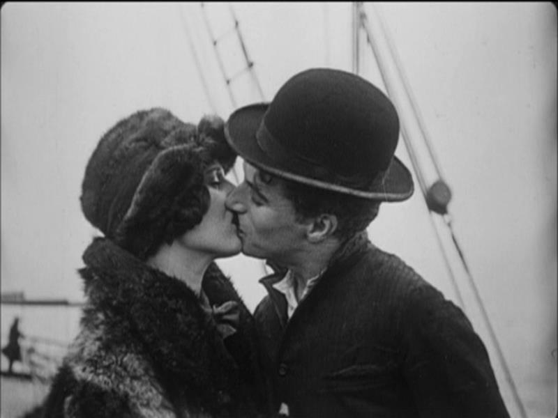 Georgia Hale from "The Gold Rush". This scene has been deleted in the sound version of the 1942.